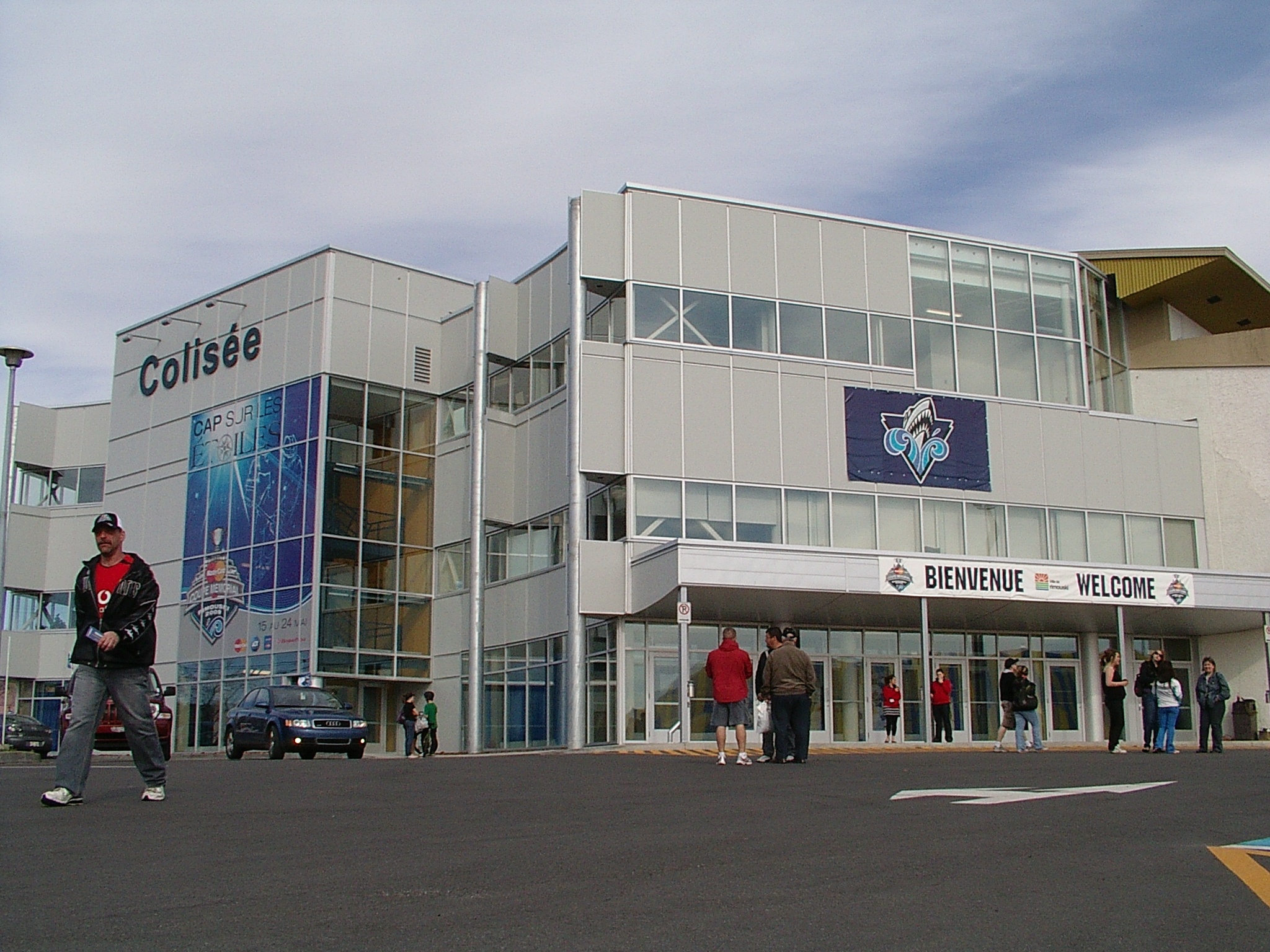 The Colisée de Rimouski hosted the Memorial Cup tournament in may 2009